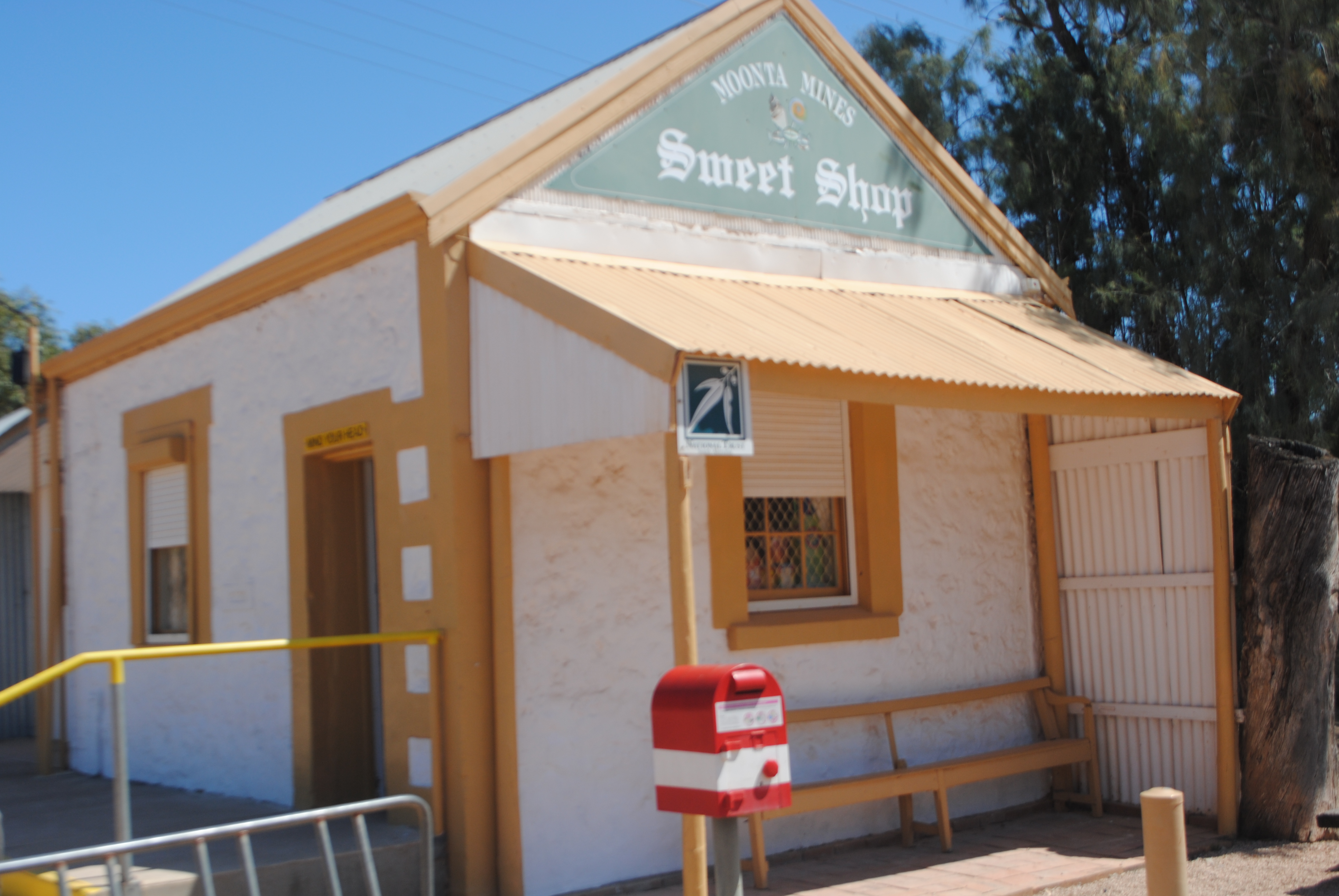 Moonta Mines Lolly Shop 1